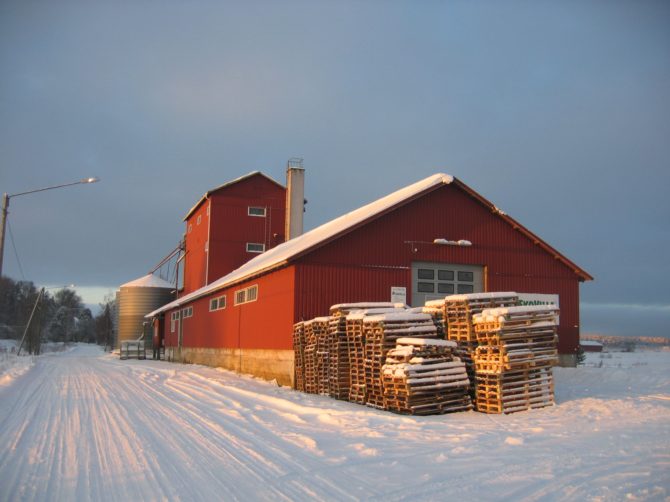 A grain processing facility by the railroad in Nousiainen, Finland